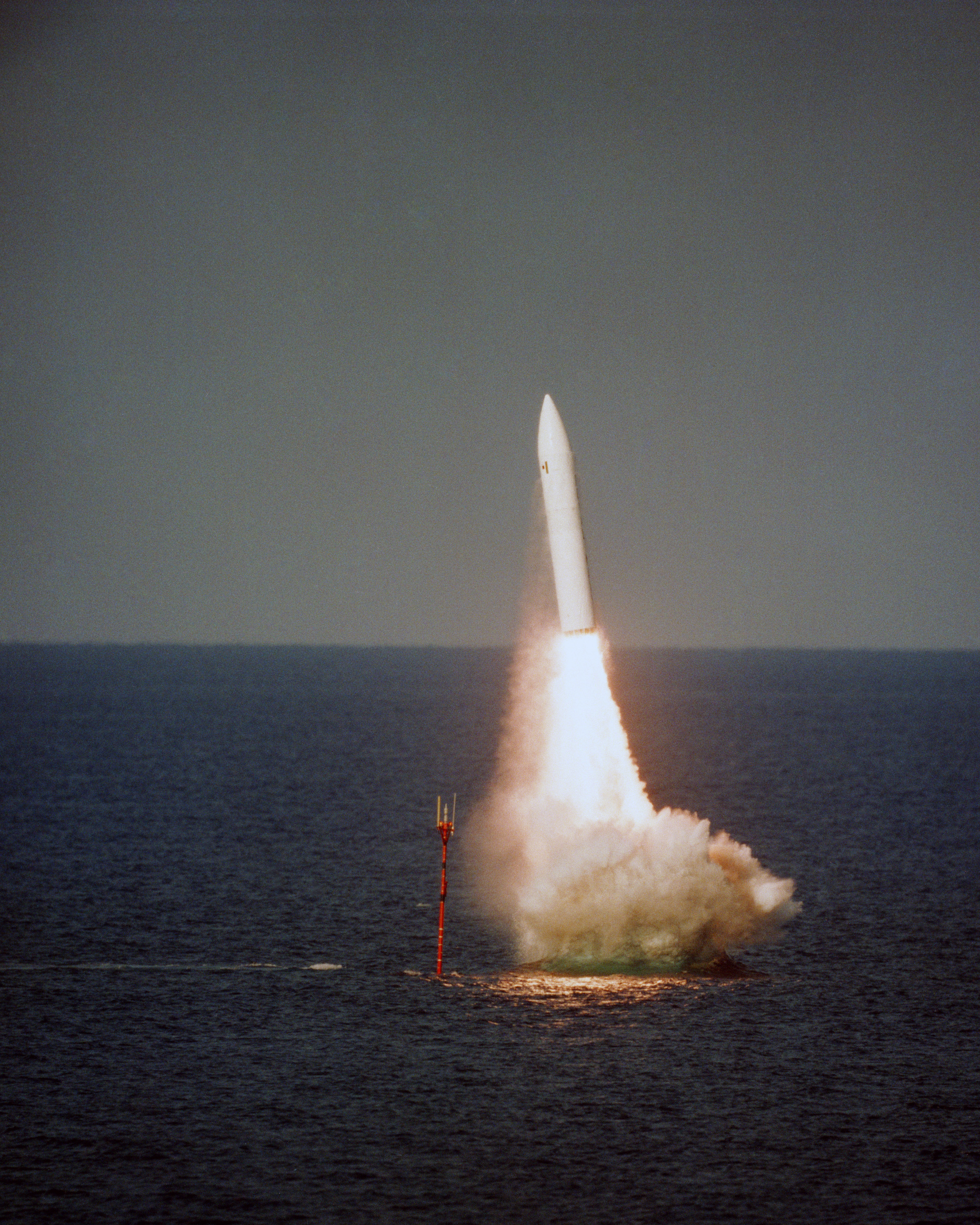 A Polaris missile lifts off after being fired from the submerged British nuclear-powered ballistic missile submarine HMS Revenge (S27) off the coast of Florida (USA).